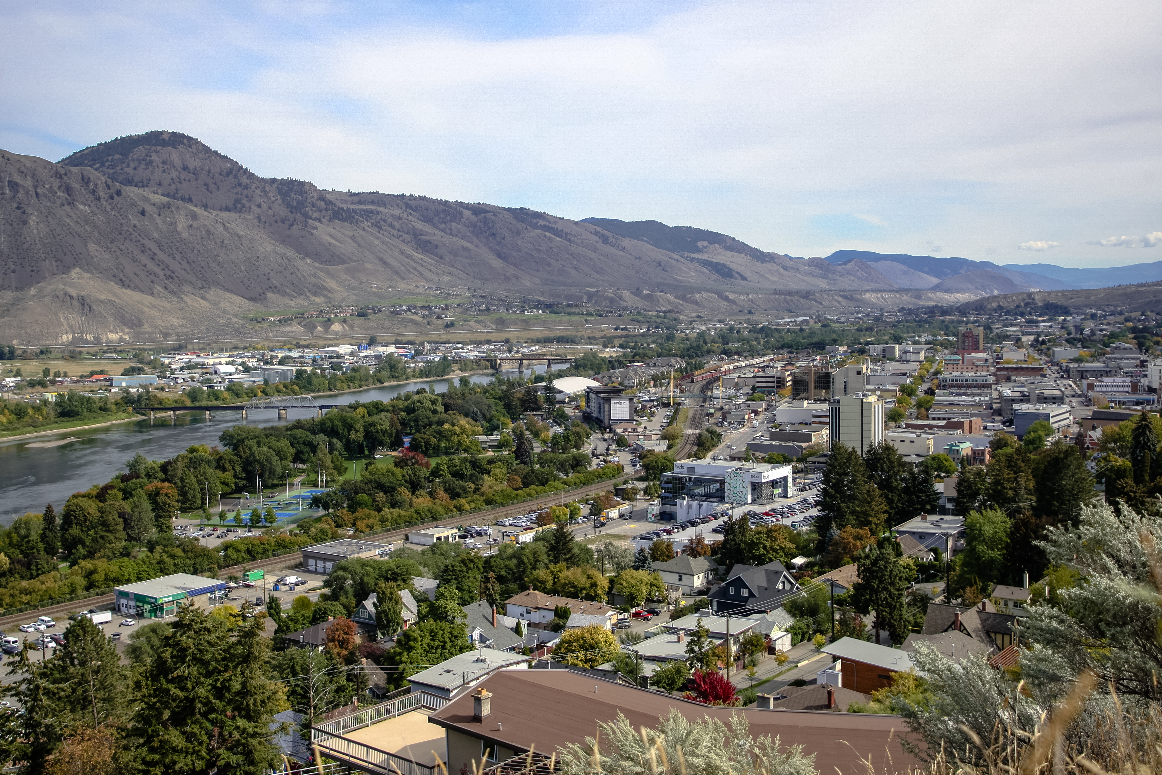 View of downtown Kamloops and Thompson Valley